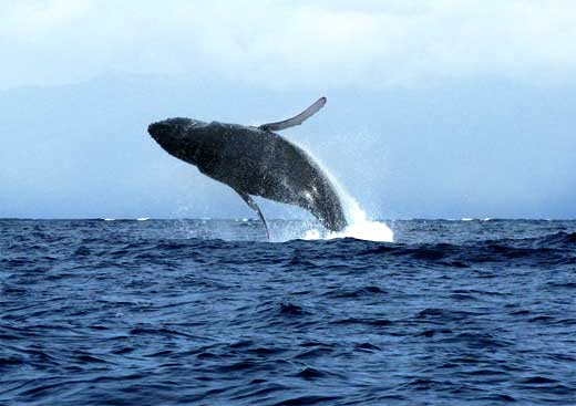 The Beautiful Humpback Whales off the Beaches of Maui,HI